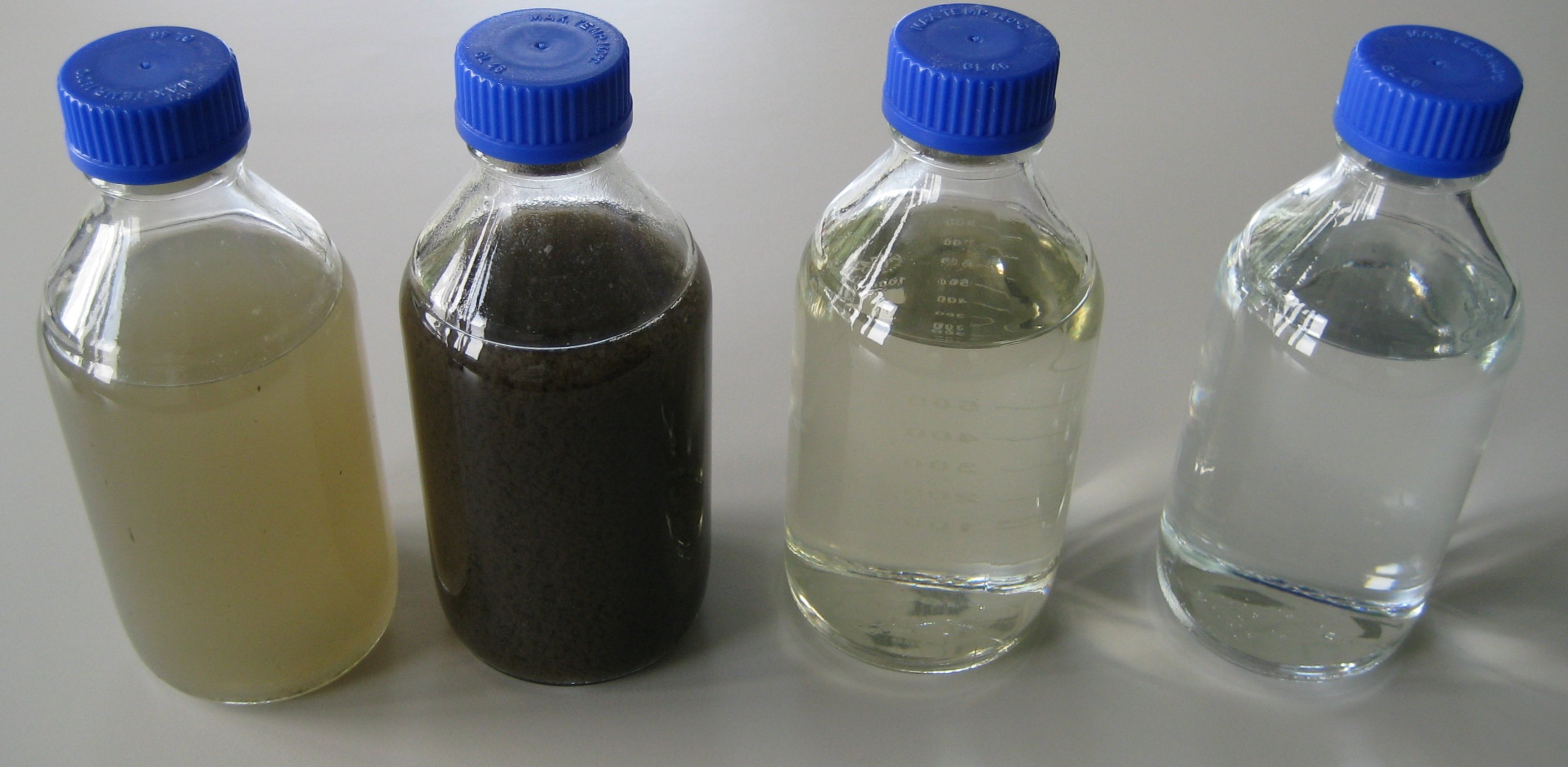 Water samples of different stages in a municipal waste water treatment plant: from left to right: mechanically treated influent (looks identical to raw influent), secondary waste water treatment (waste water mixed with activated sludge), effluent of a municipal waste water treatment plant, potable water as an example of additional enhanced water treatment